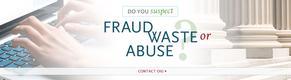 Do you suspect fraud waste or abuse? Contact the OIG.